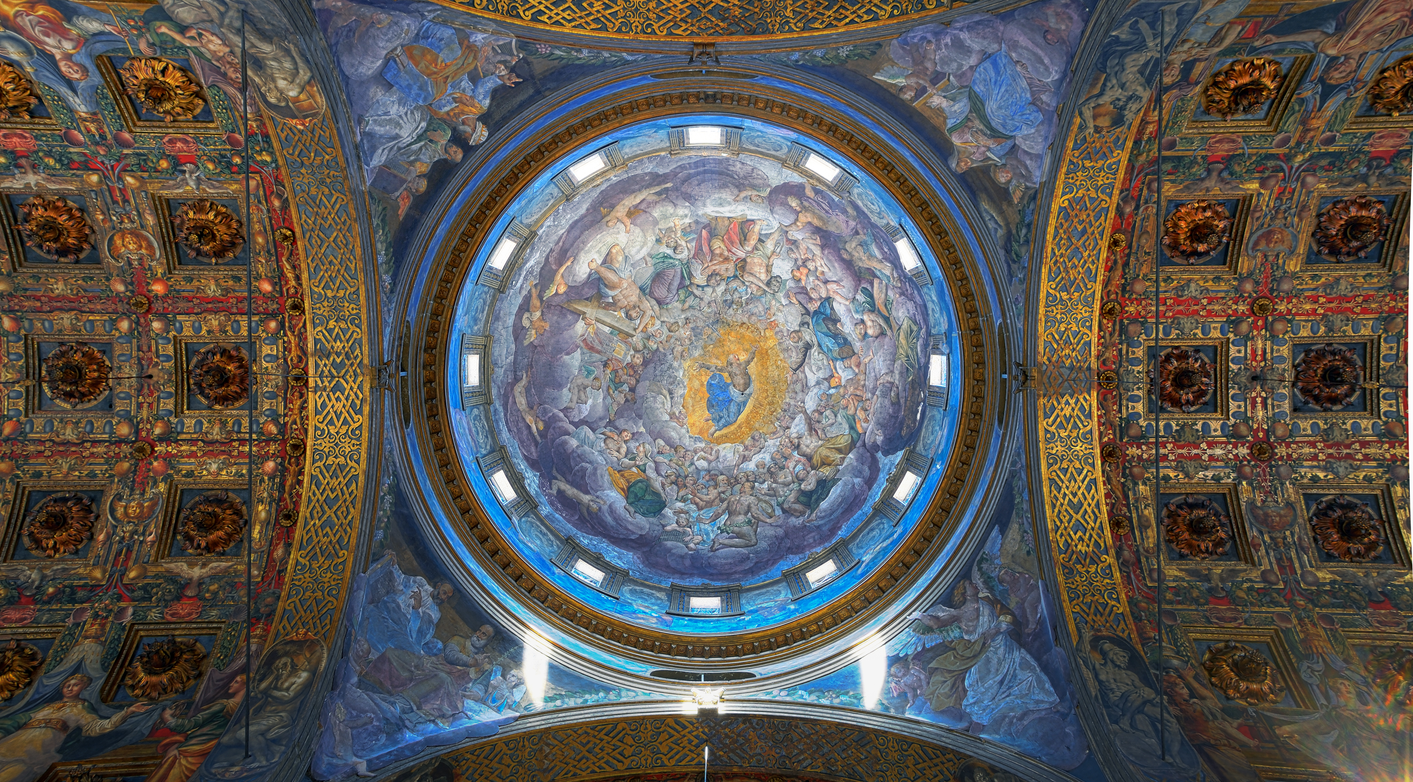 Santa Maria della Steccata (Parma) - Dome